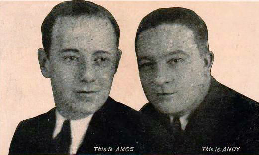 Promotional postcard of Charles Correll and Freeman Gosden as Amos and Andy.